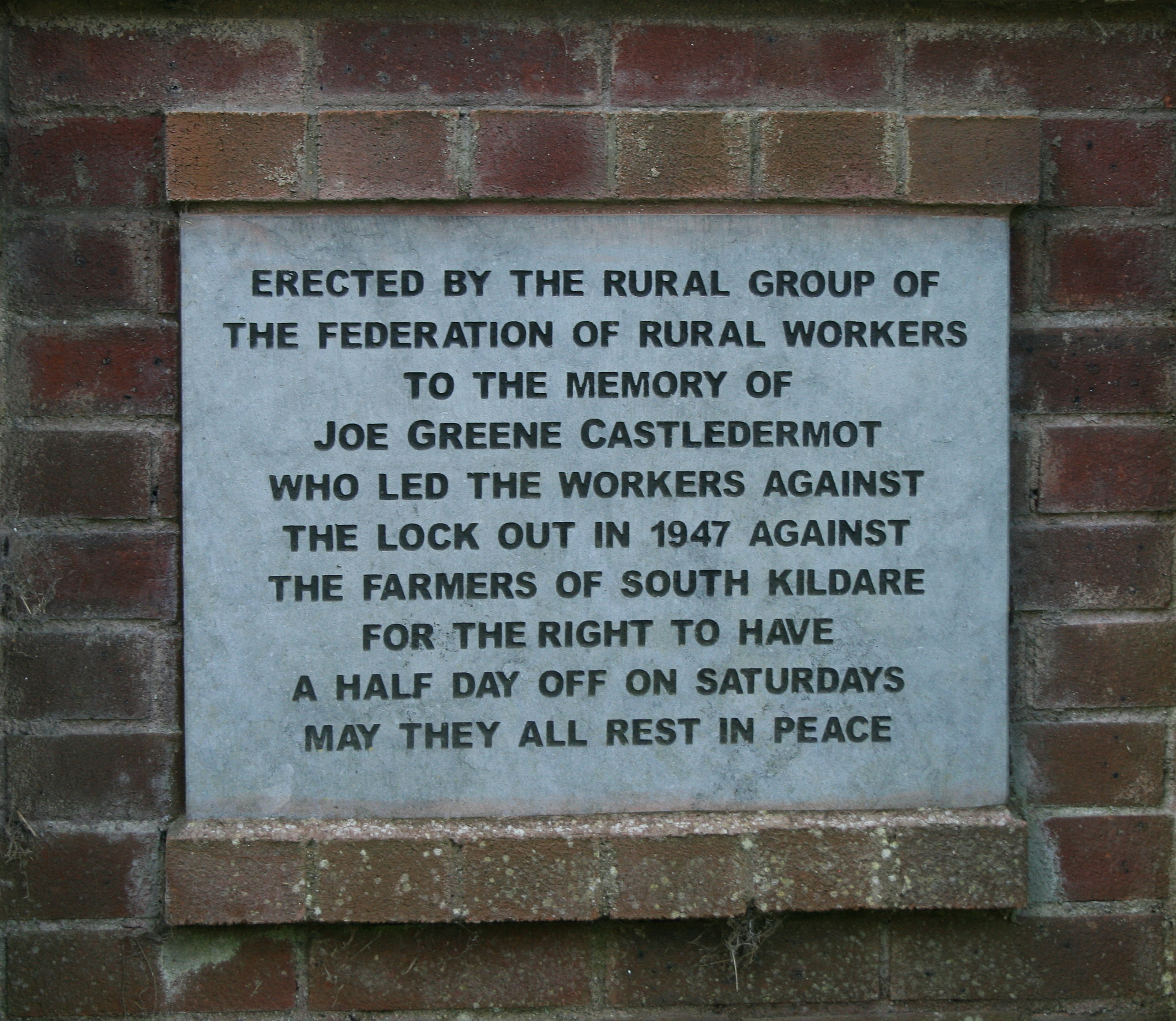 Located at The Round Bush, near the village of Kilkea, County Kildare